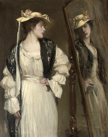 The Looking Glass